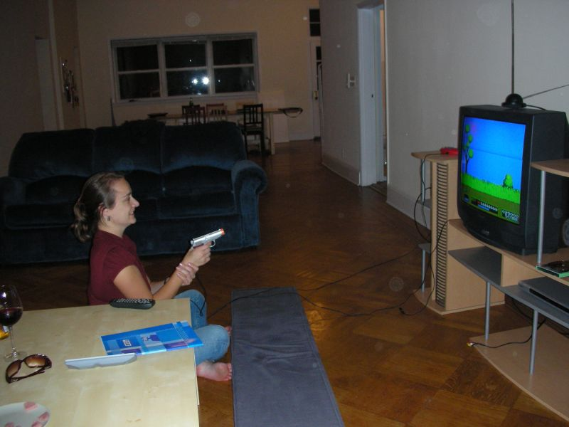 woman playing Duck Hunt video game, lightgunDuck Hunt